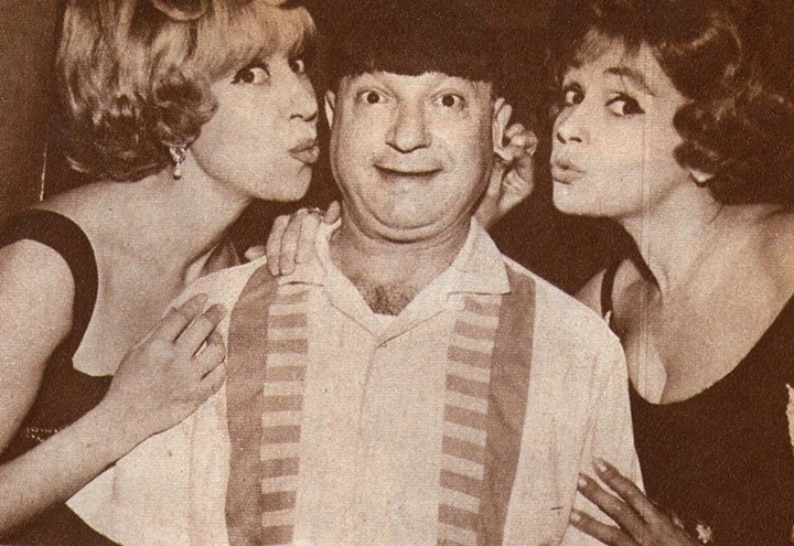 Juanita Martinez - Pepe Marrone- Amelita Vargas